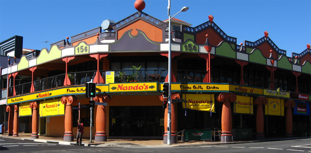 Photo of the westend landmark building taken in 2006 by User:Lilywantanabe and released under the GFDL.